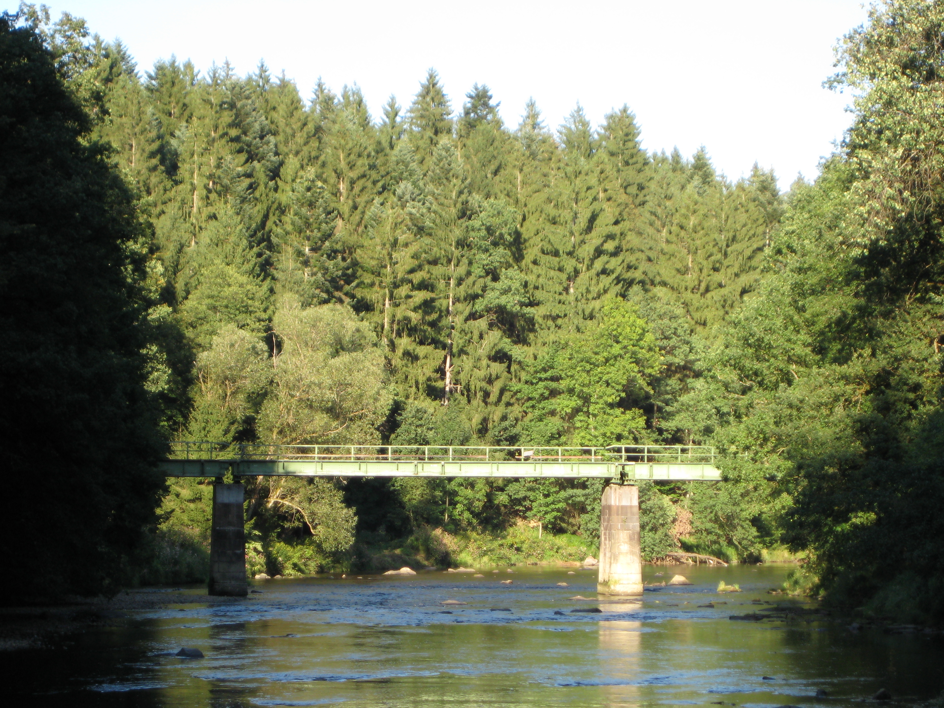 Former railway line between Passau and Freyung, Lower Bavaria